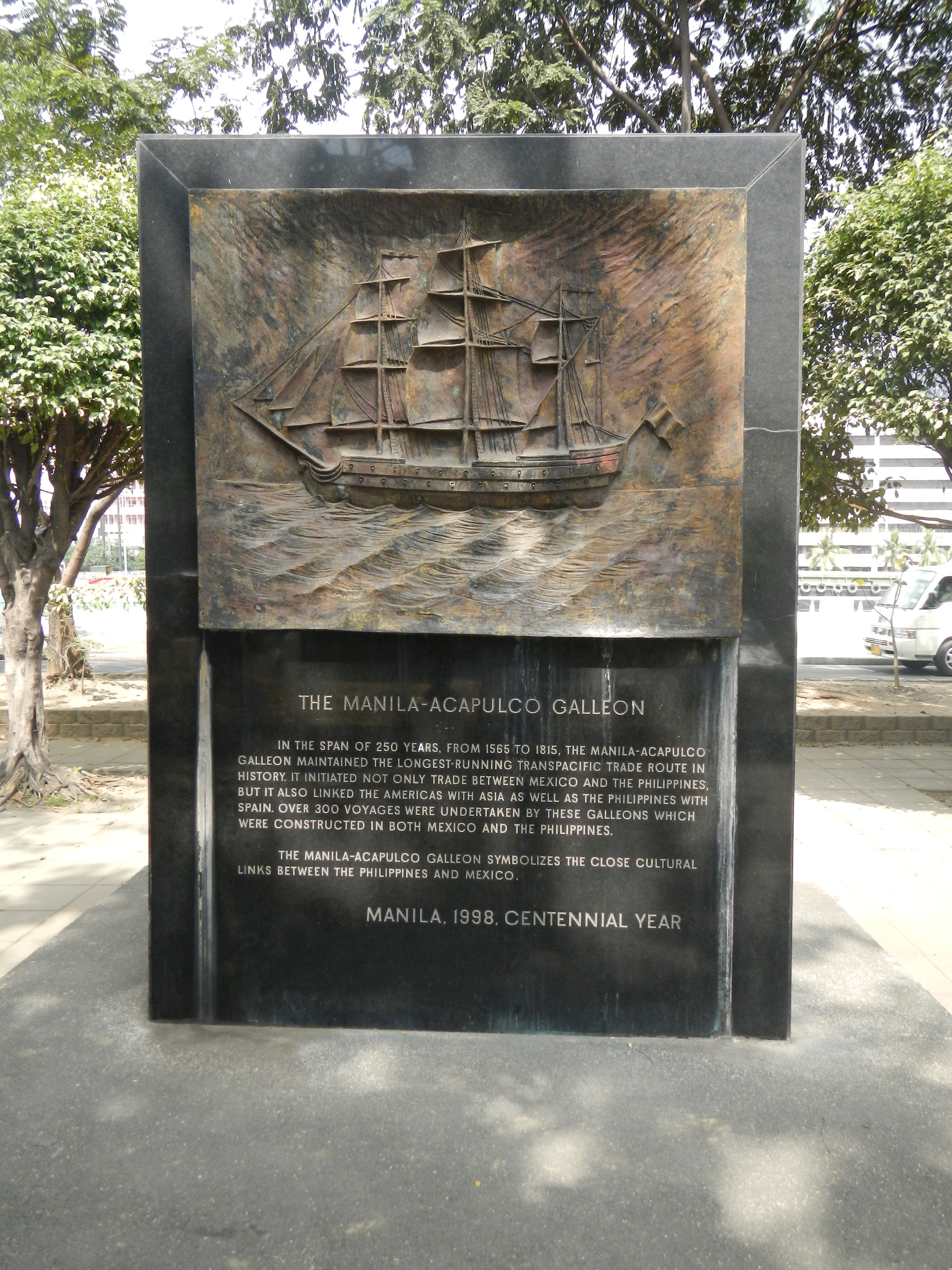 The Manila-Acapulco Galleon [1] located inside the walls of Intramuros, Manila, Plaza Mexico is an area near Aduana and the Pasig River with view of Santa Cruz Bridge, Santa Cruz, Manila and Escolta Street commemorates the historic galleon trade of Mexico and the Philippines along with the 400 years of maritime expedition of the country Fraternidad Ibero-Americana Filipina 1564-1964.